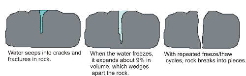 Water seeps into cracks and fractures in rock. As it freezes, it expands which wedges the rock apart.